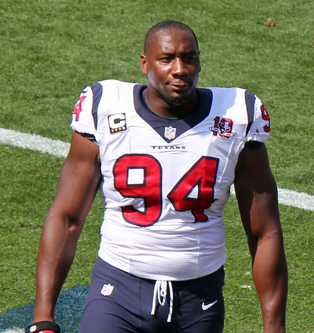 Antonio Smith, a player on the National Football League.